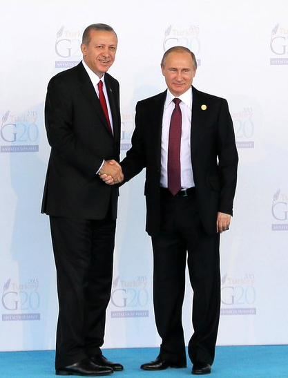 Erdogan and Putin in Antalya Summit